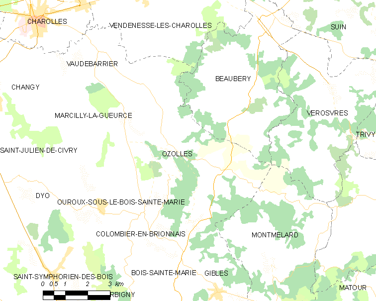 Map of French municipality